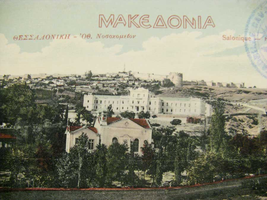 The historical Bulgarian church “Saint Paul” in Thessaloniki.